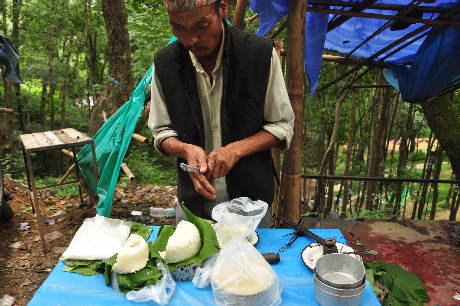 A street stall vendor selling Khuwa in Nepal. These vendor come from nearby villages of Kathmandu Valley to sell khuwa. Khuwa is used as a thickening agent in sweets making in India and Nepal.